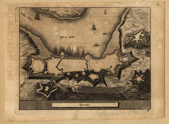 Setúbal Walls (XVIII century)